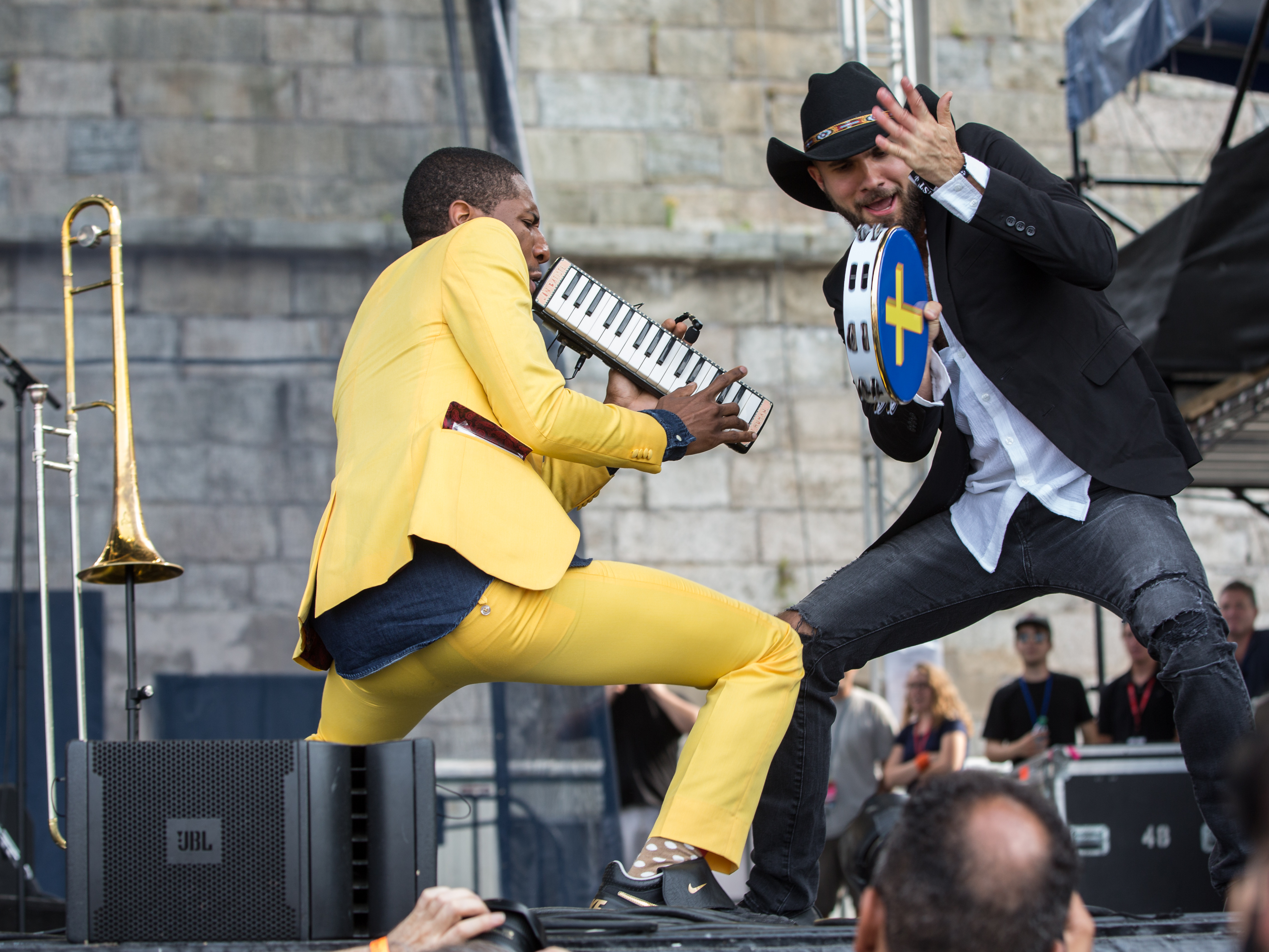 NEWPORT, RI - AUGUST 1: The 60th edition of the Newport Jazz Festival kicks off with a full day of programming, with John Zorn's Masada Marathon being the highlight of the day. Other acts include Mostly Other People Do The Killing, the world premiere of Rudresh Mahanthappa's Charlie Parker Project, Jon Batista & Stay Human, Darcy James Argue's Secret Society, Cécile McLorin Salvant, and the URI Jazz Festival Big Band. Shot on Friday, August 1, 2014.